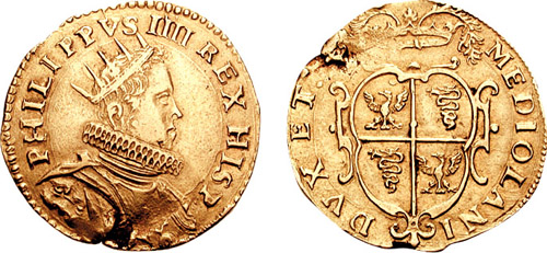 Italia, Milano. Filippo IV, Re di Spagna e Duca di Milano. 1621-1665. AV Quadrupla (12.75 g, 7h). Senza data. PHILIPPVS III REX HISP, busto radiato, e corazzato dx, sulla spalla testa di leone. MEDIOLANI DVX ET: C, stemma coronato. Italy, Milan. Philip IV, as King of Spain and Duke of Milan. 1621-1665. AV Quadrupla (12.75 g, 7h). No date. PHILIPPVS III REX HISP, radiate, draped and cuirassed bust right, epauliere with lion's head MEDIOLANI DVX ET: C, crowned and garnished coat-of-arms. see: Italian modern coins, Gold coin Cf. CNI V pg. 342, 159; Crippa pg. 279, 1A/1B; Friedberg 724.